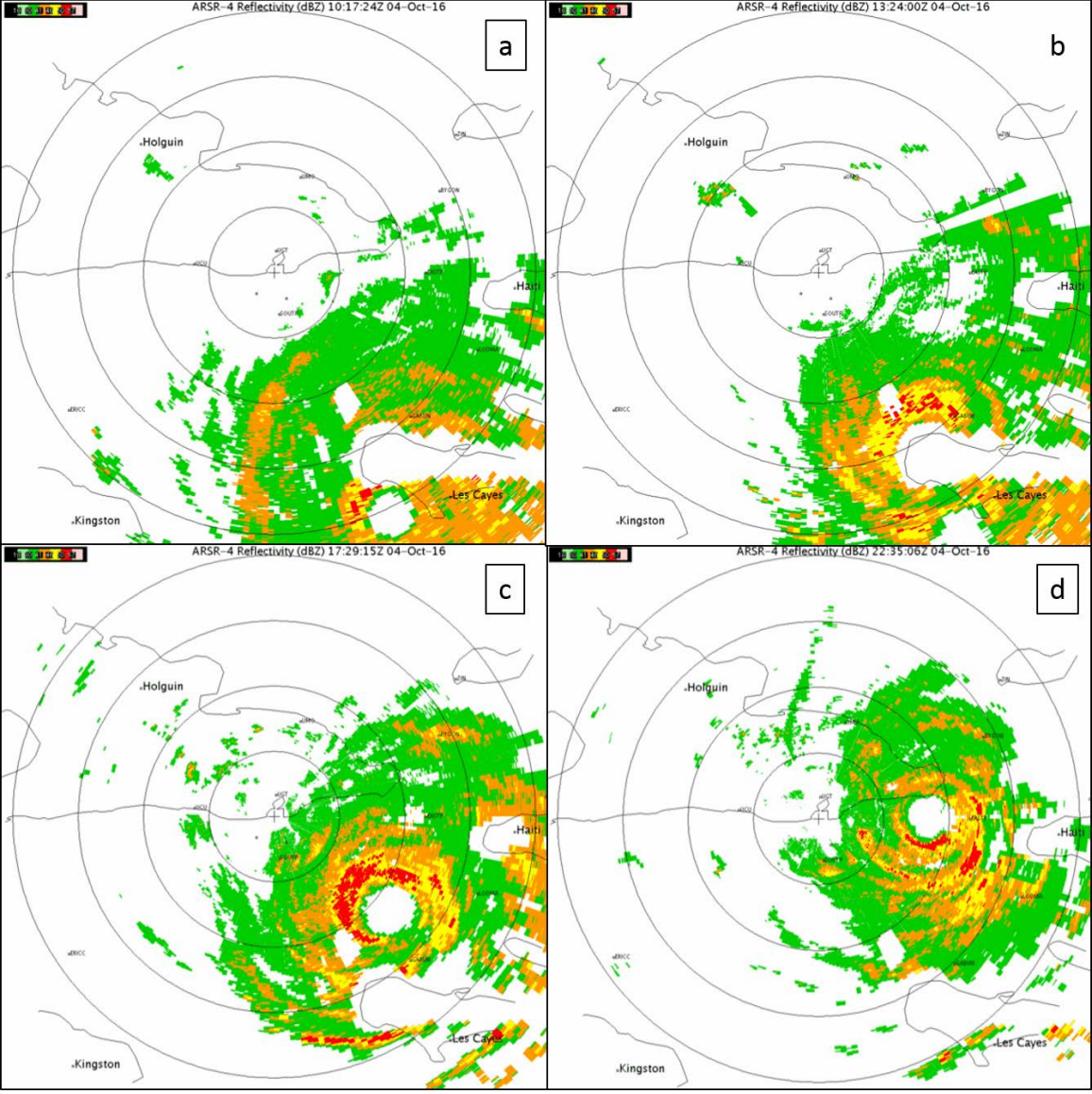 Four radar images of Hurricane Matthew as it struck Haiti and Cuba on October 4, 2016